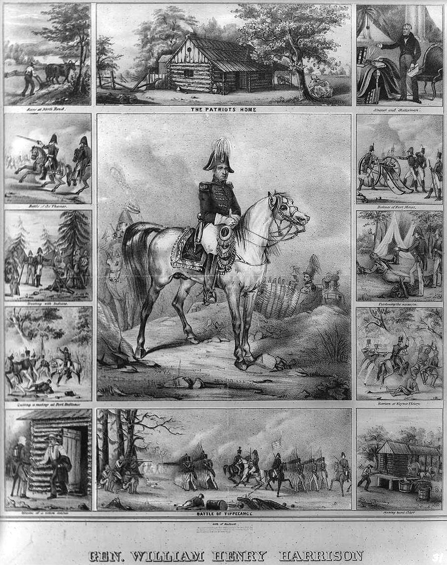 Lithograph of Gen. William Henry Harrison. Print shows a campaign banner with Harrison on horseback; surrounded by 12 vignettes of his home, military service, and political activity.